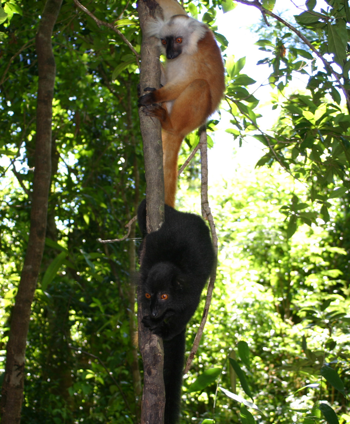 Male and female Black Lemurs,Eulemur macaco. The black lemur is one of 28 species of lemurs, which are relatives to monkeys and apes and is so called True lemur. The black lemur got its name from a male coloration, which is black, while female is brown. The difference in the colors between male and female is unique for lemurs. The image was taken at Madagascar by Brocken Inaglory